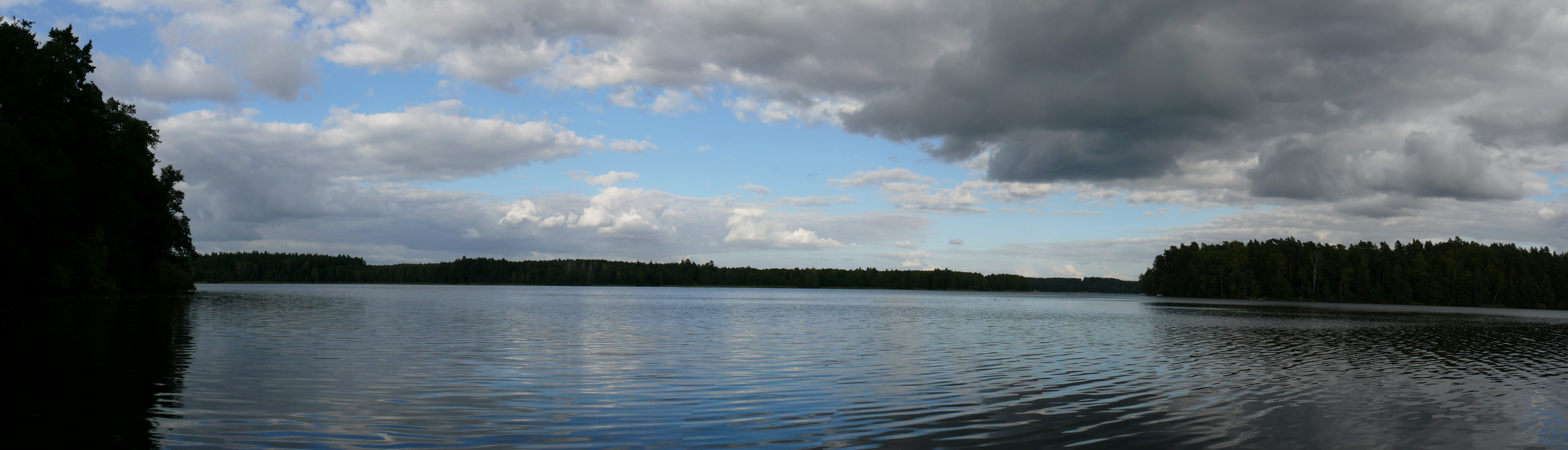 Lake Wielkie Partęczyny, Poland.